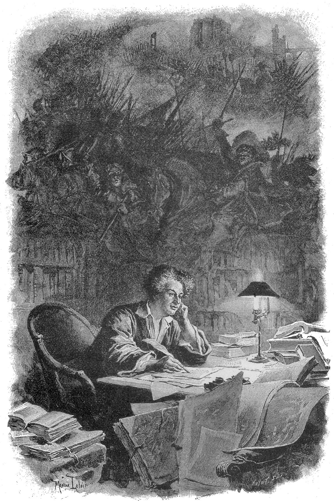 Depicted person: Alexandre Dumas - in his library.